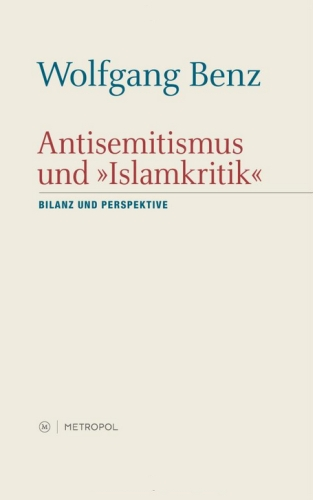 Book cover of Wolfgang Benz: "Antisemitismus und „'Islamkritik'" (Metropol, 2011).